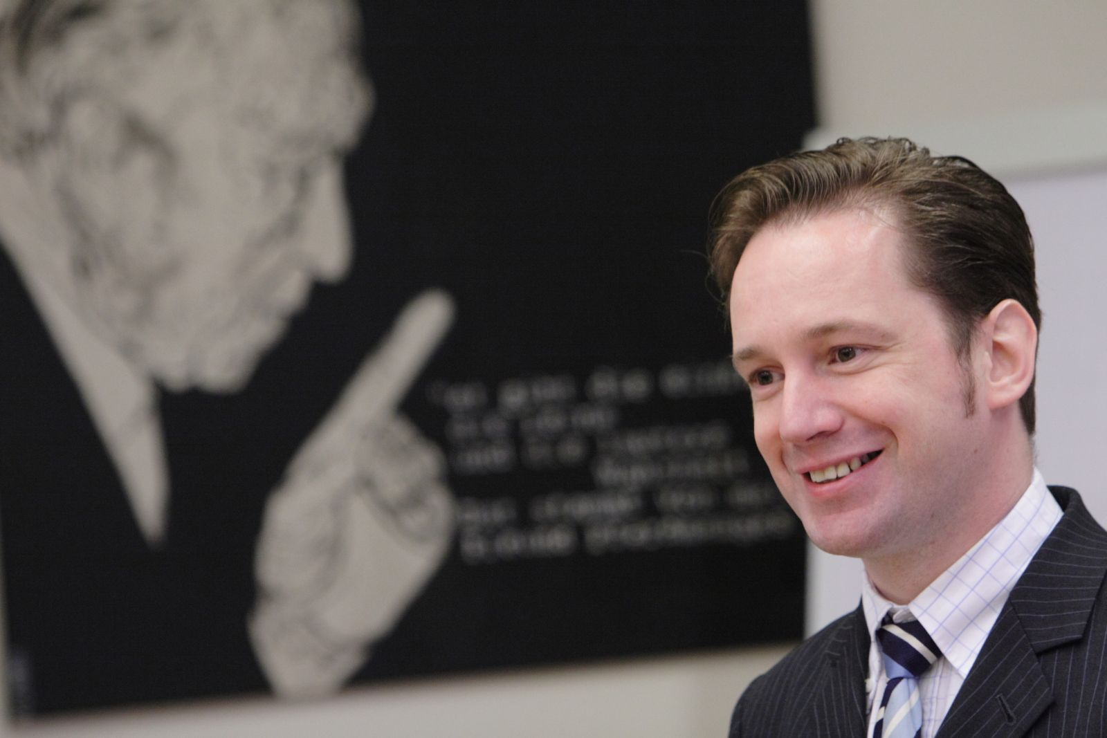 Michael Borchard bei einer Veranstaltung der Konrad-Adenauer-Stiftung im Jahr 2008